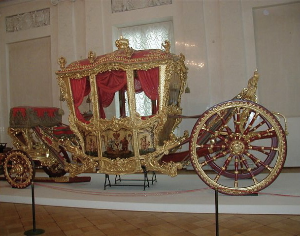 Golden carriage in the Hermitage.